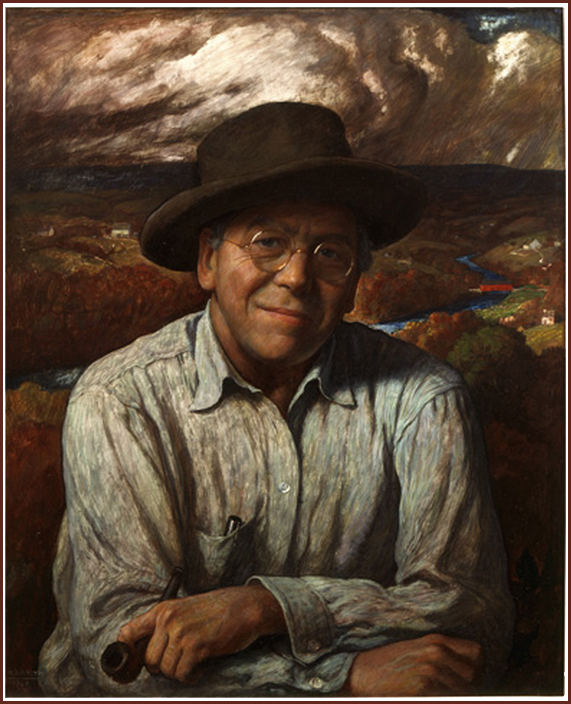 Self-portrait